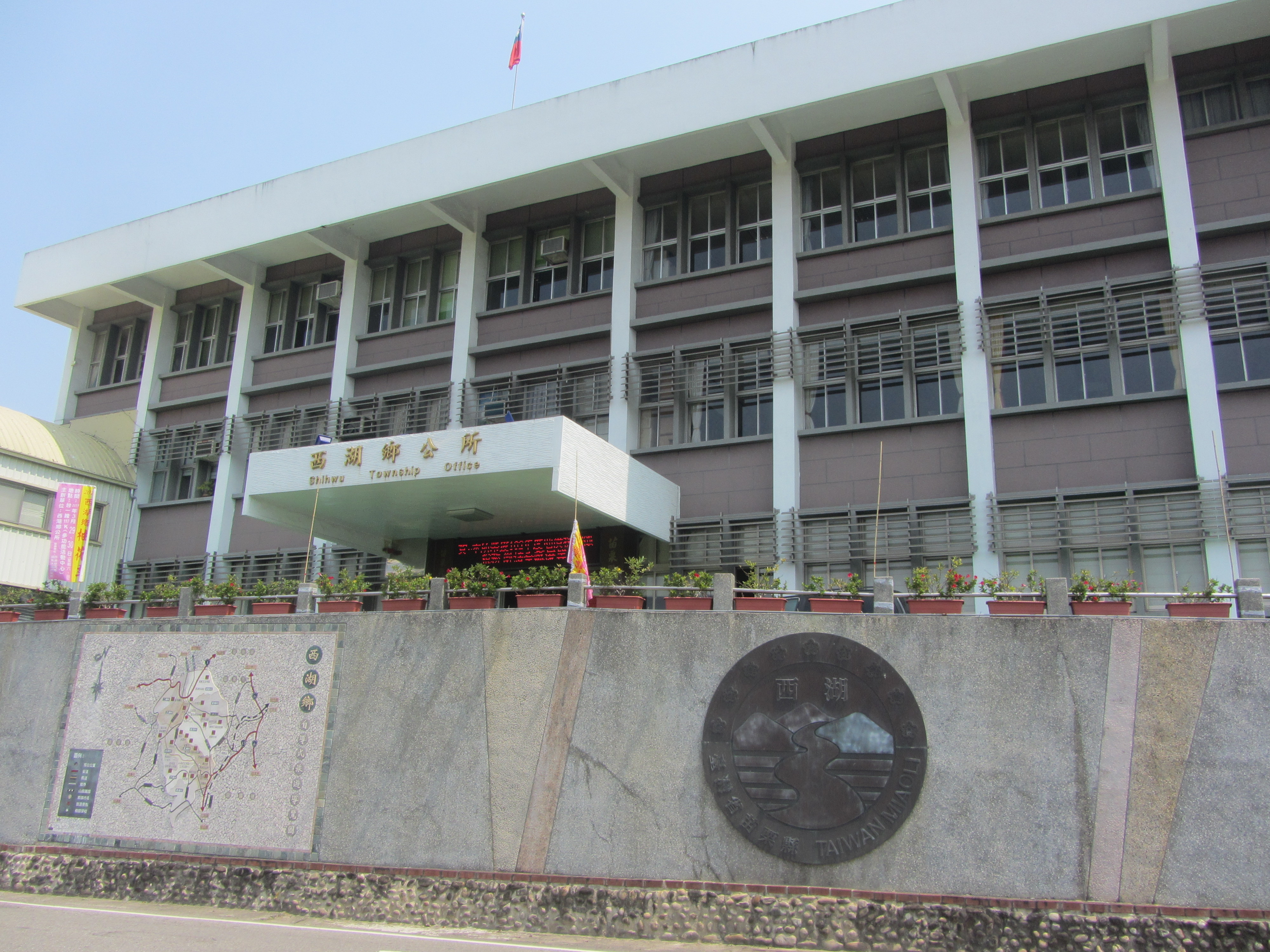 Shihwu Township Office